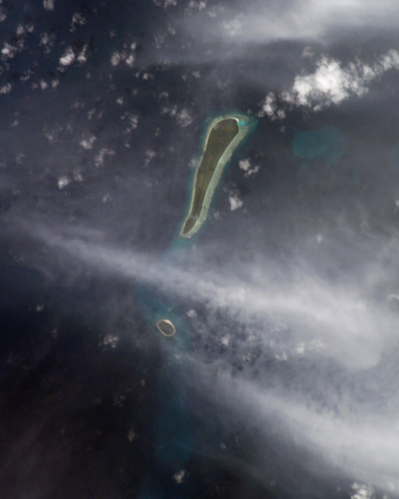 Astronaut picture of Eagle Islands, Chagos Archipelago, British Indian Ocean Territory